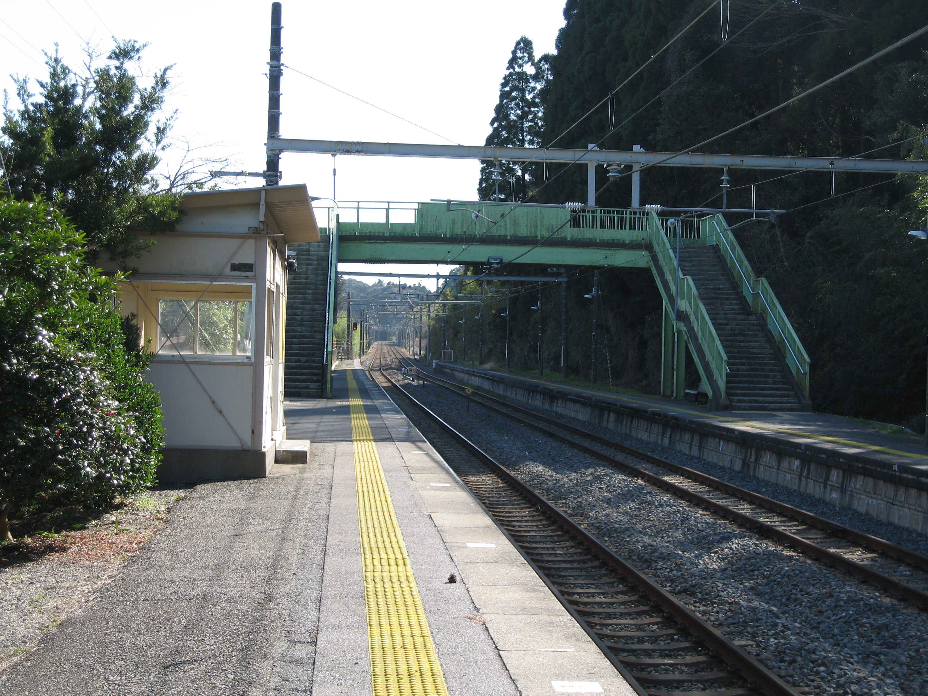 Torami Station, Sotobo Line, Chiba, Japan, 東浪見駅プラットホーム（勝浦方面を望む）